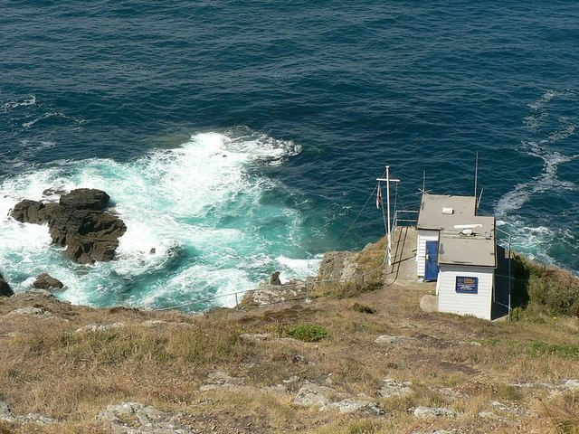 Coastwatch Station, Cape Cornwall. Looking down from the top of the cape